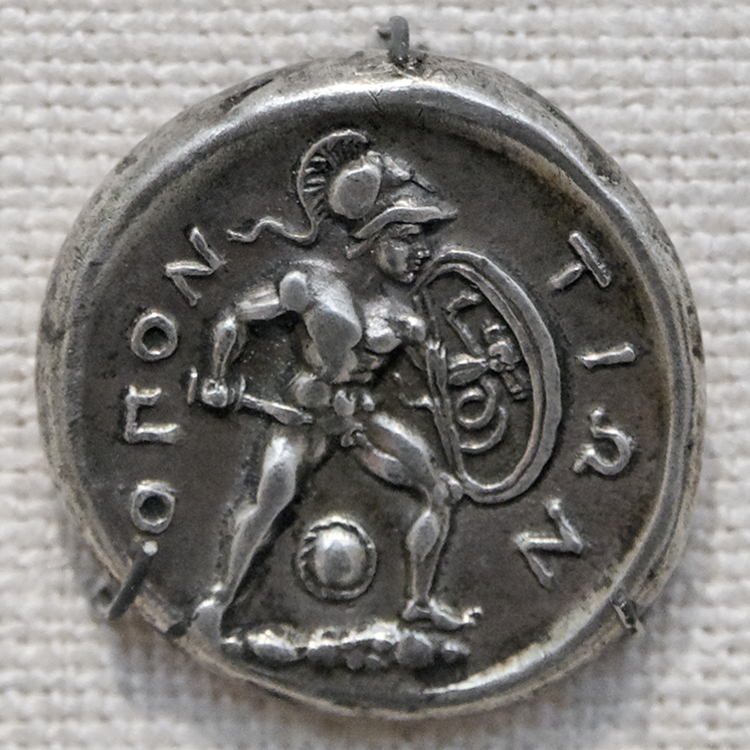 Ajax, son of Oileus. Reverse of a silver stater of Locri Opontii.